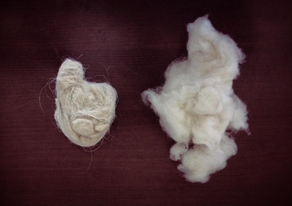 Raw Pashmina on the left and De-haired Pashmina wool on the right. From Jos&fine record Cashmere bale.